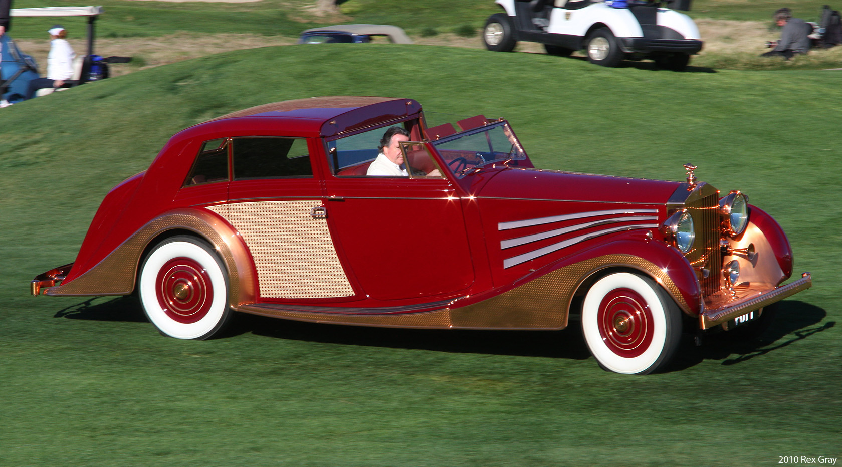 1937 Rolls-Royce Phantom III Freestone & Webb Sedanca de Ville (103CP38); Third Annual Desert Classic Concours d'Elegance, Feb 28 2010